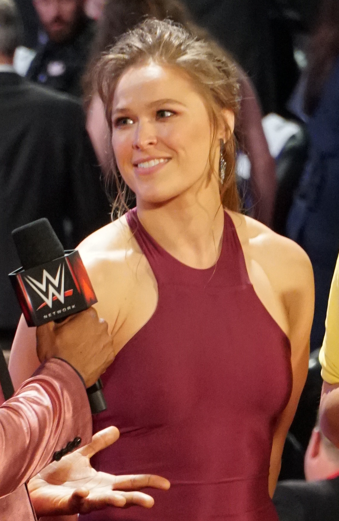 NOLA 2018 - WWE HOF 2018 WWE Hall of Fame (2018) was the event that featured the introduction of the 19th class to the WWE Hall of Fame. The event was produced by WWE on April 6, 2018 from the Smoothie King Center in New Orleans, Louisiana. The event took place the same weekend as WrestleMania 34. The event aired live on the WWE Network, and was hosted by Jerry Lawler. ( Deux semaines a Nola pour la ville et pour WWE Wrestlemania XXXIV Two weeks Nola for the city and for WWE Wrestlemania XXXIV )